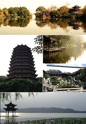 Montage of various Hangzhou images